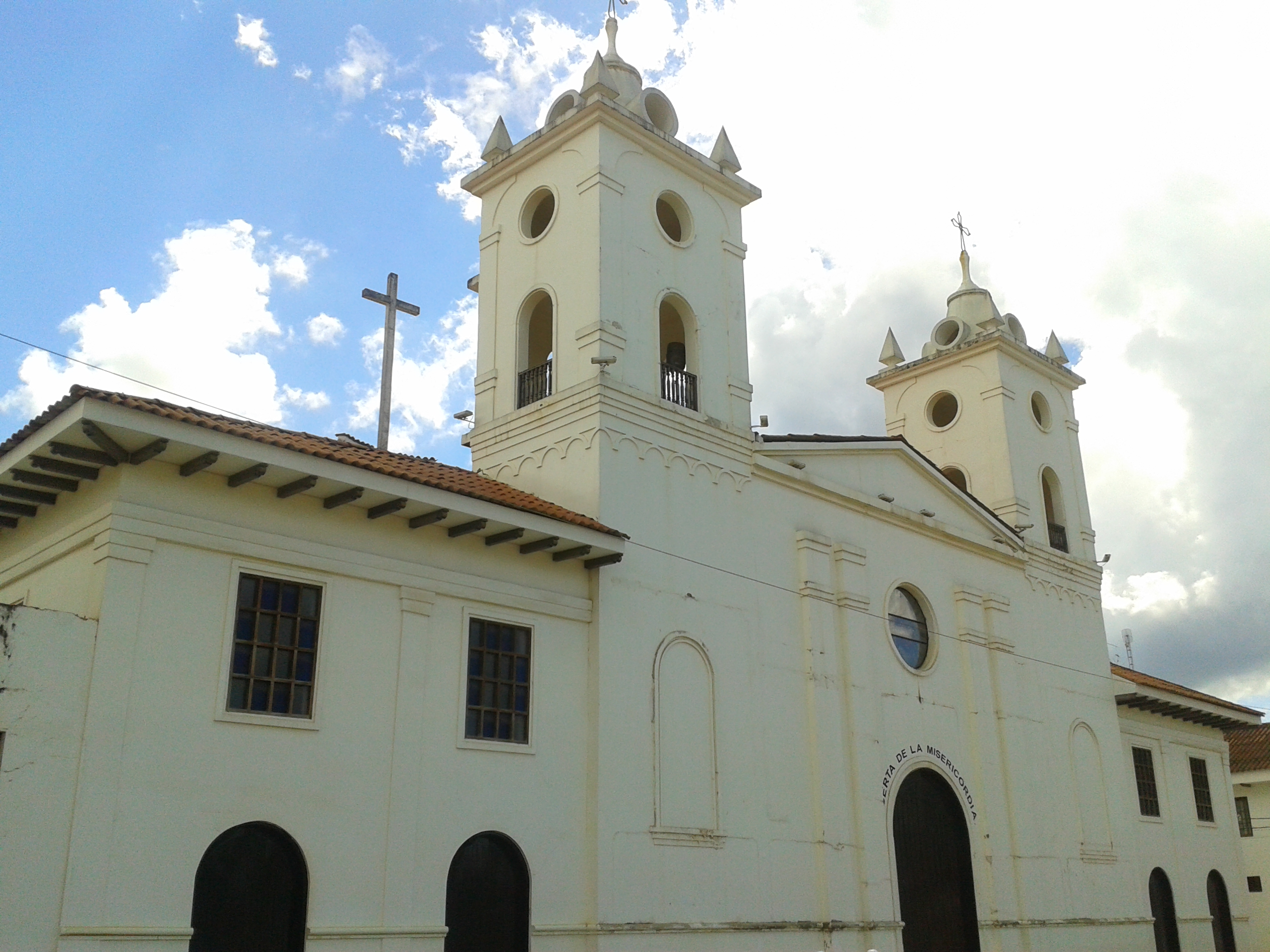 Cathedral of Chachapoyas